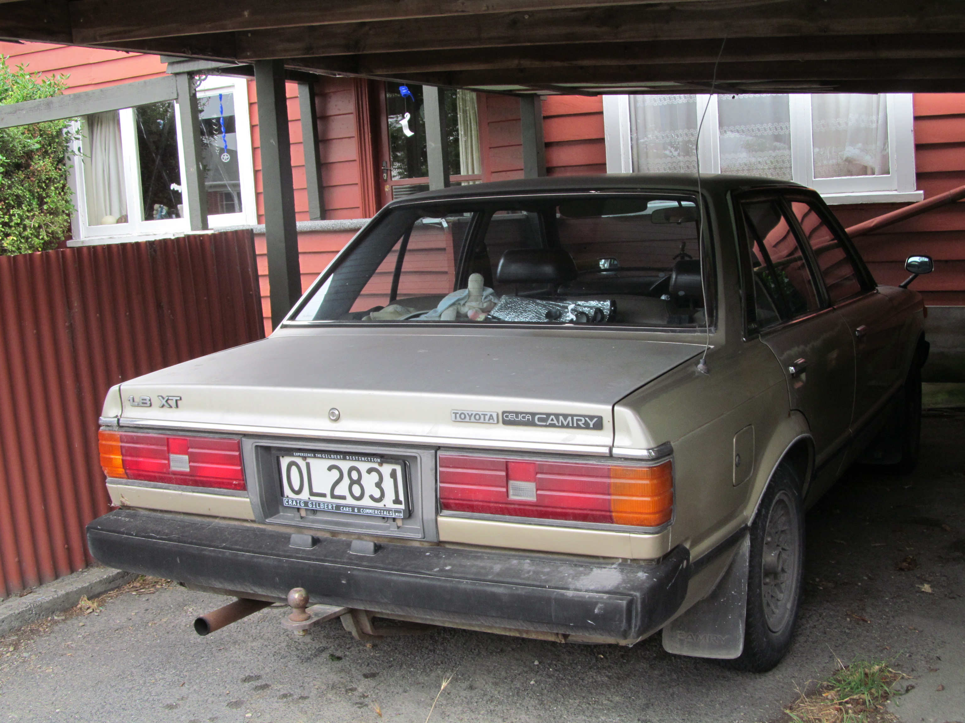 I'd been hoping to find one of these for ages, and when in Timaru last week I finally caught one! The Celica Camry was the saloon counterpart to the Celica, and was based on the TA40 Carina. Unfortunately this one is only a 1.8, so not one of the rare 2.0 Celica-engined cars.